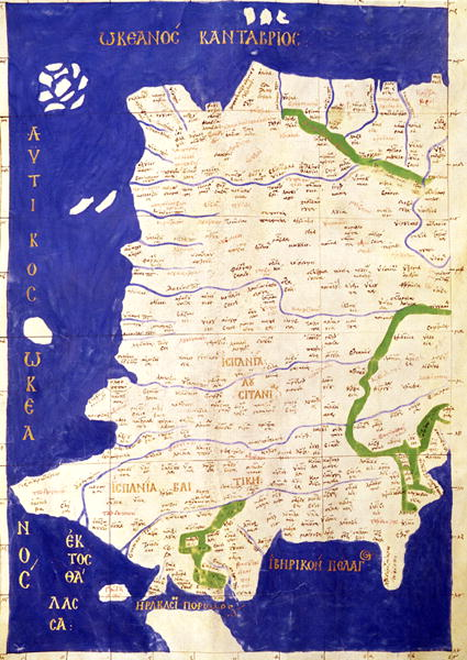 The left half of the 2nd European Map, depicting Portugal ("Lusitanian Hispania") and southern Spain ("Baitic Hispania"), from an early 15th-century Greek manuscript edition of Ptolemy's Geography (MS Gr Z 388 [=333] f. 55 v.) from the collection at Venice's St Mark's Library (Biblioteca Nazionale Marciano di Venezia).